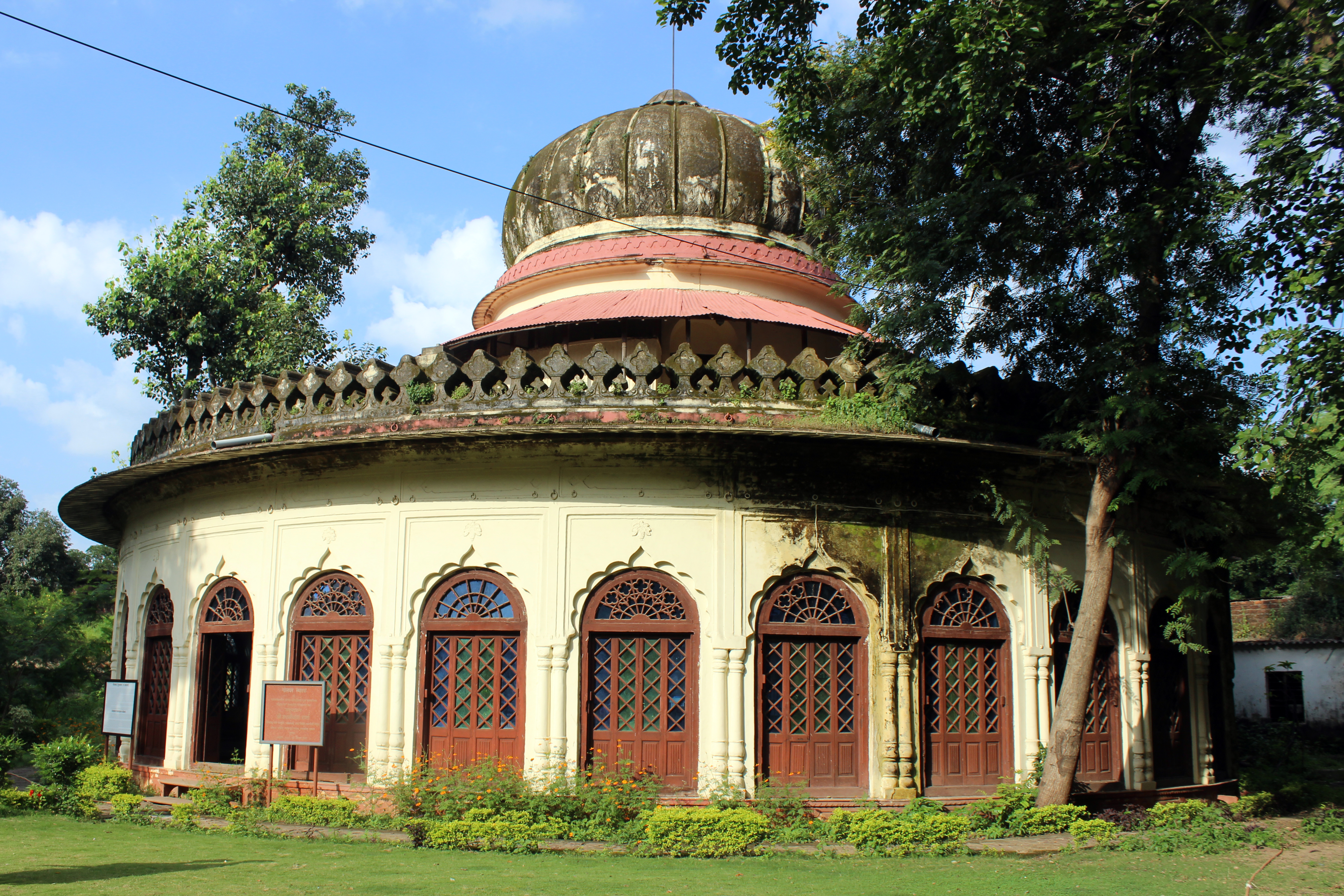 Golghar